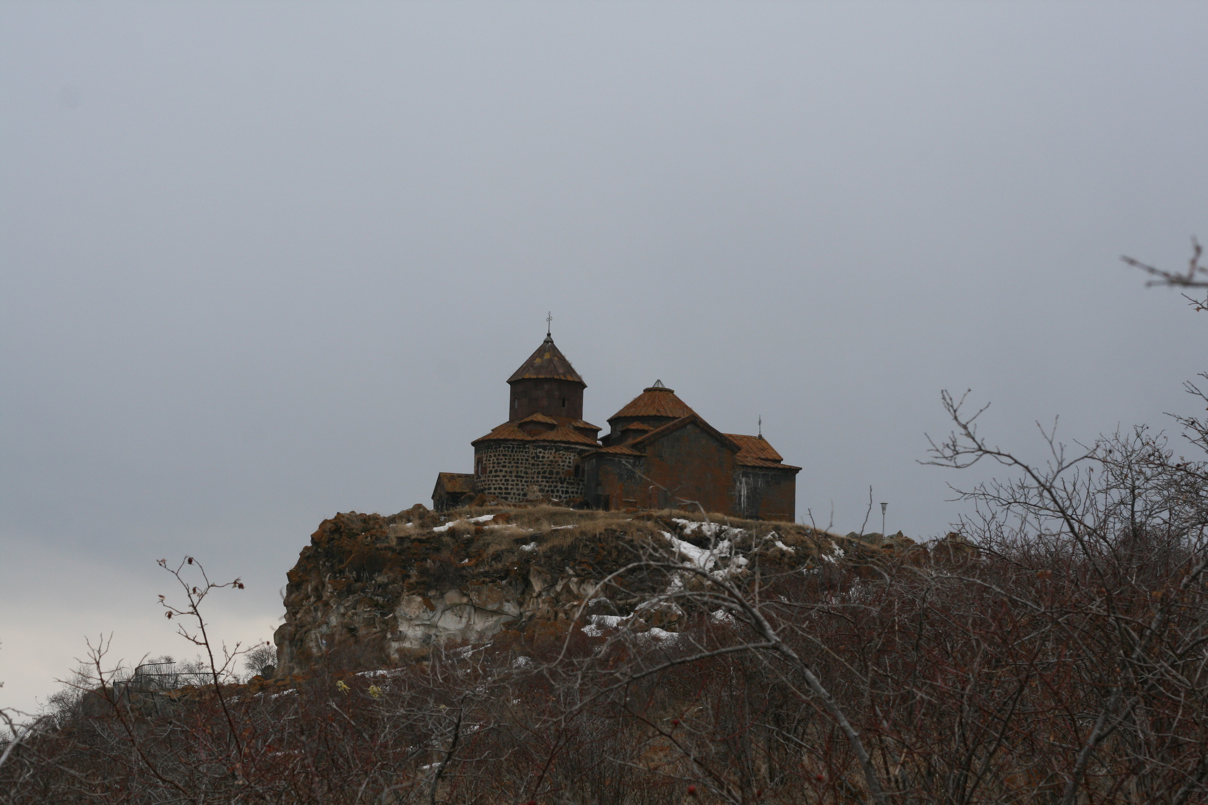 Hayravank Monastery (Հայրավանք)